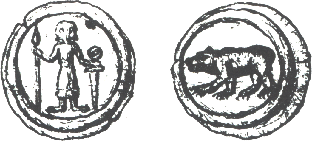 Silver penny of Berlin from 1369.